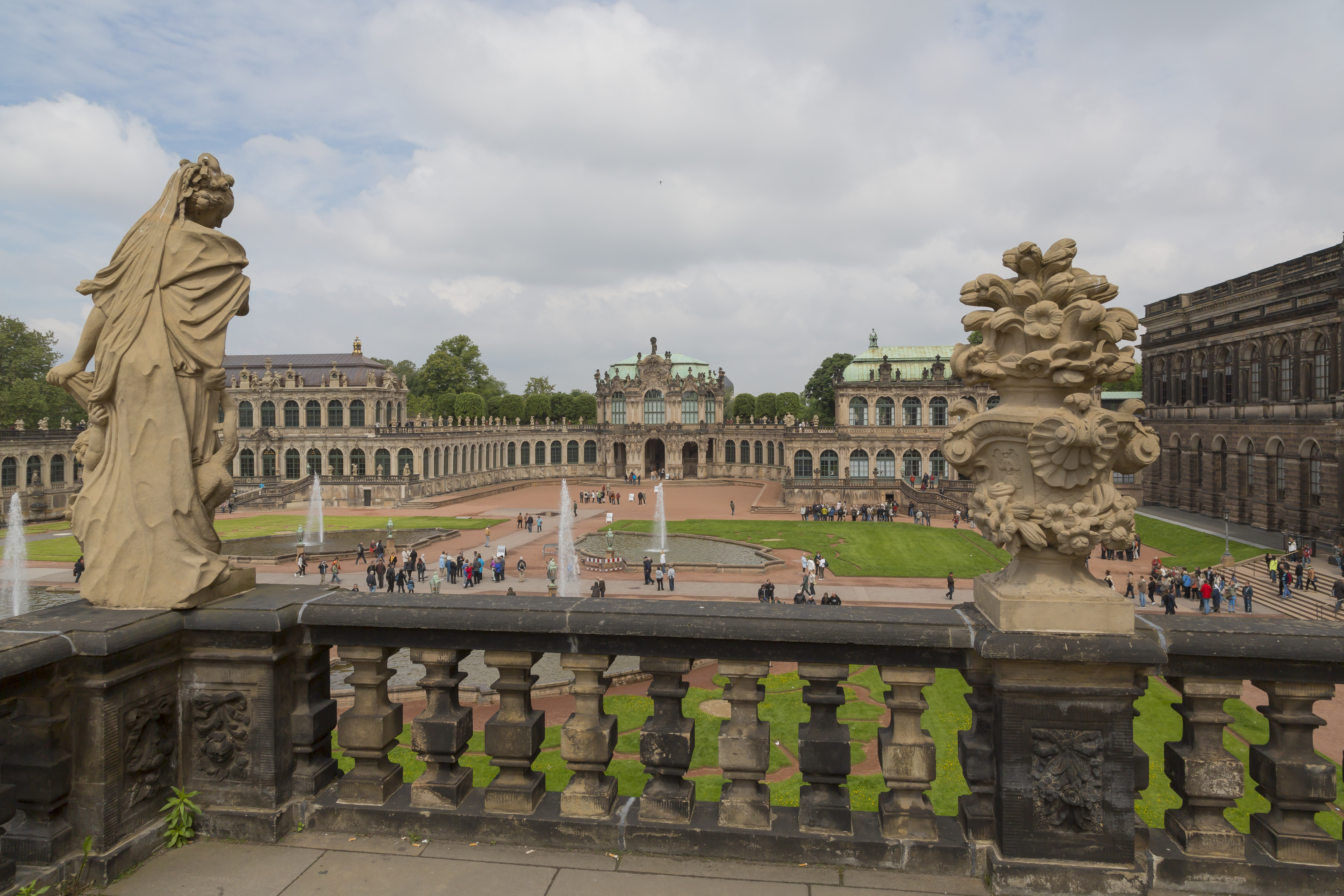 Dresden, Germany: Zwinger Dresden